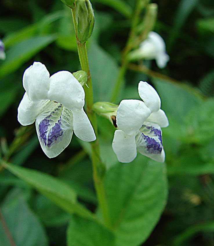 Asystasia gangetica subsp. micanthra